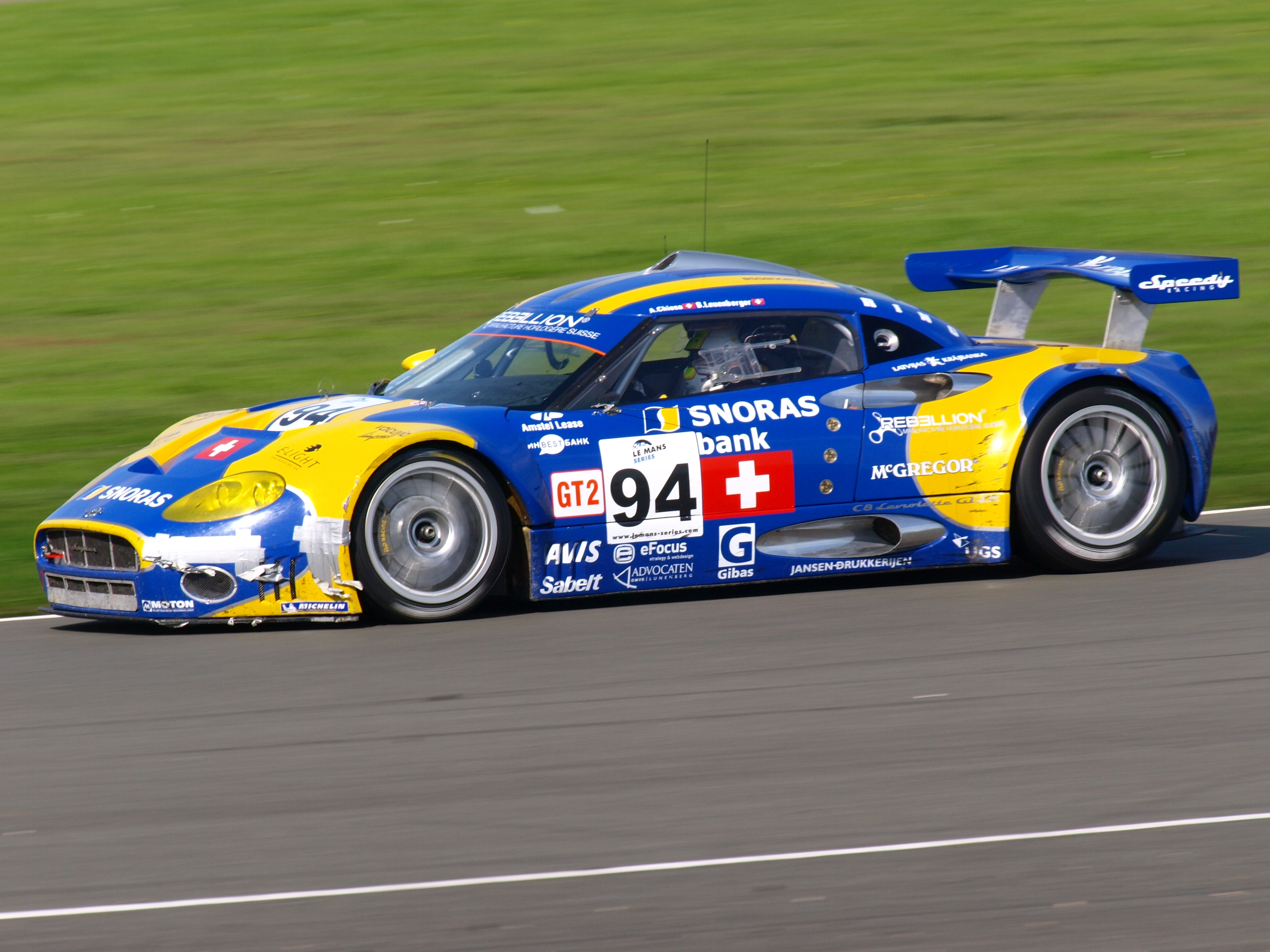 Speedy Racing Team's Spyker C8 Laviolette GT2-R at the 2008 1000km of Silverstone.